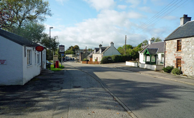 Post Office and High Street, Munlochy